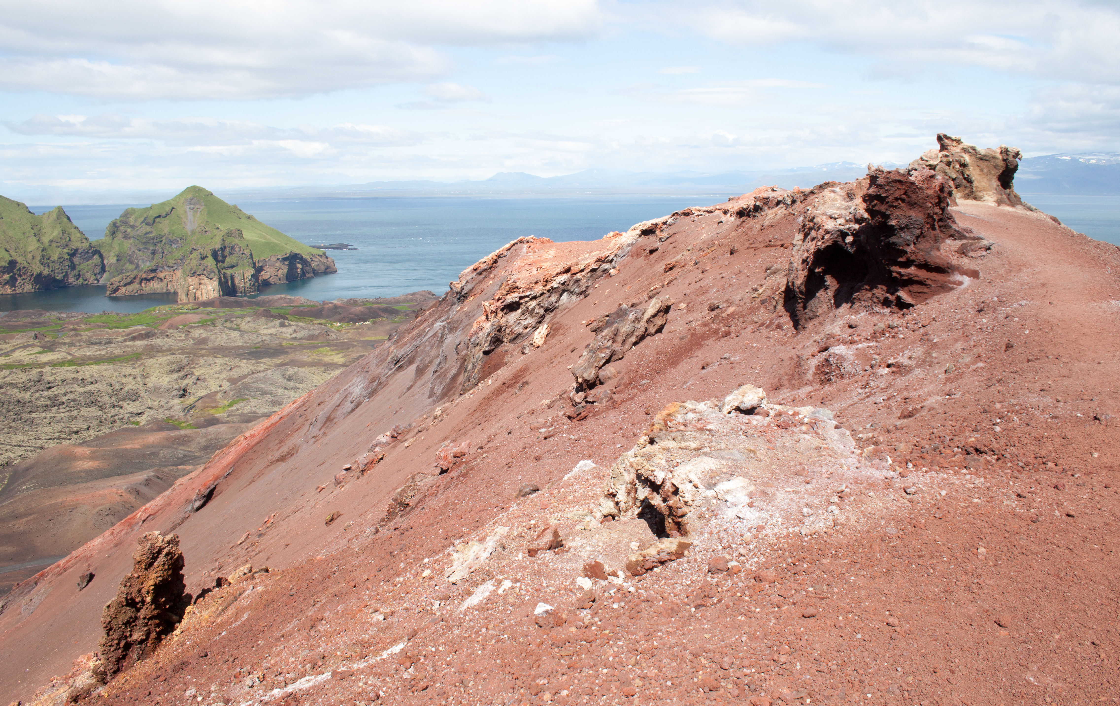 View from the Eldfell towards Iceland